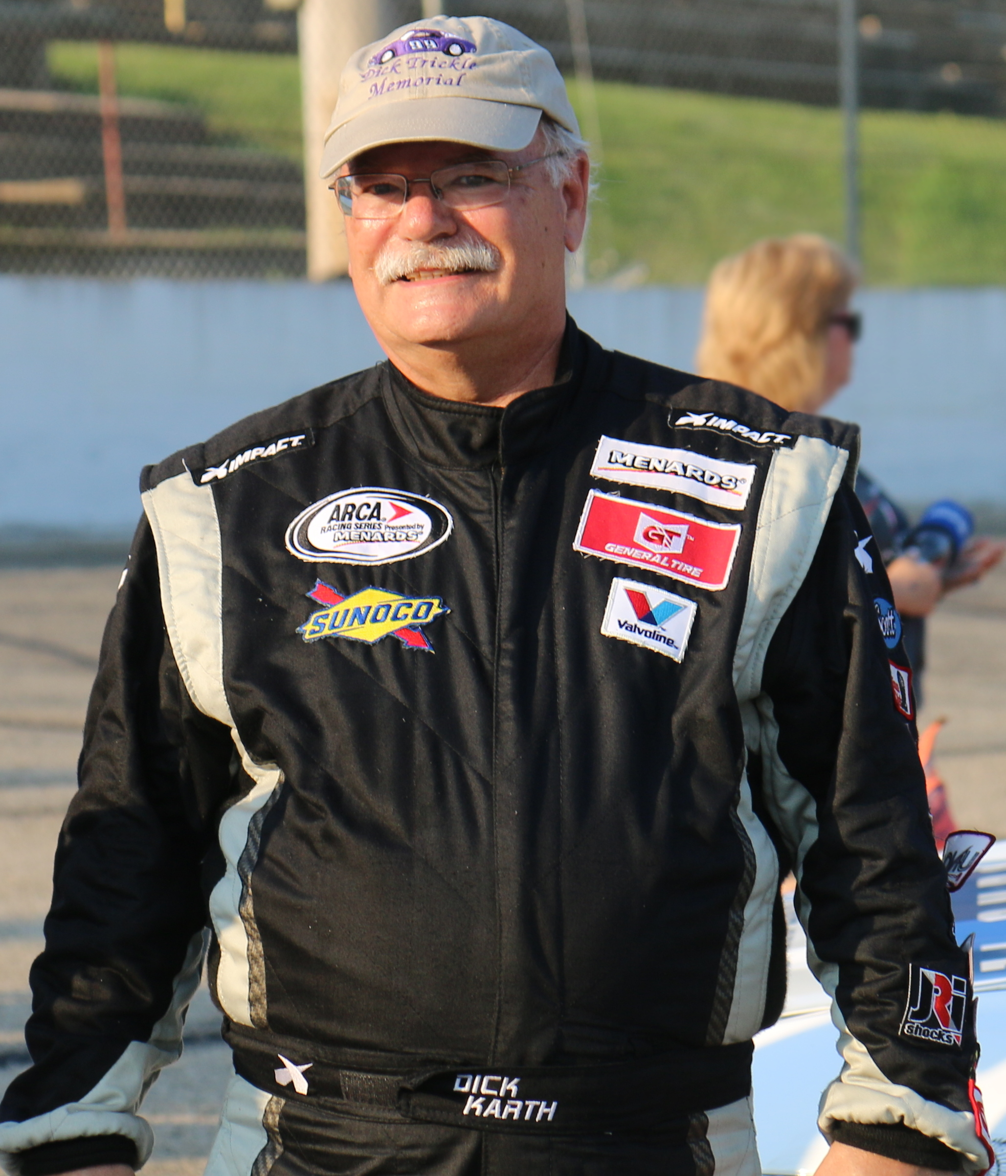 ARCA driver Dick Karth posing for a photograph at Madison International Speedway.